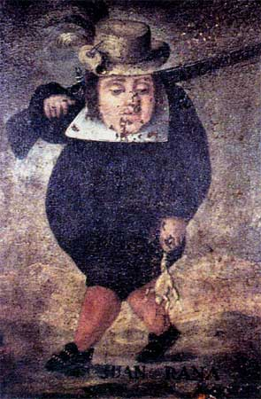 Spanish comedic actor Juan Rana, known as Cosme Pérez